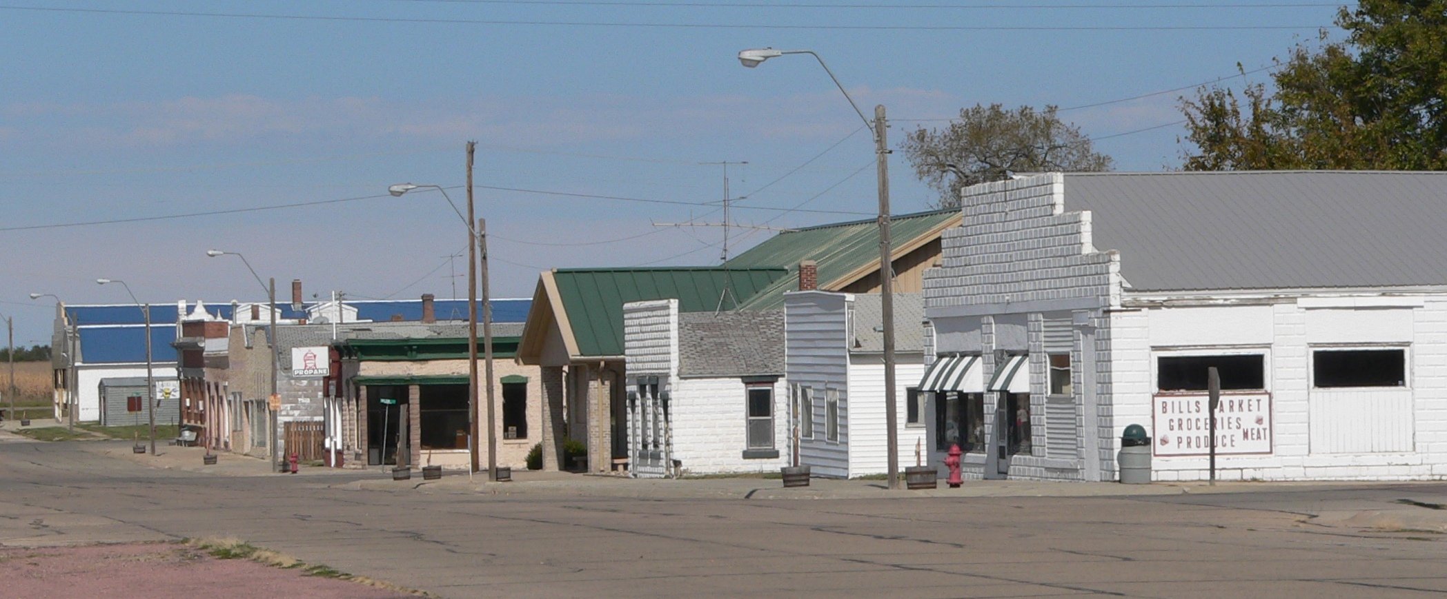 Downtown Butte, Nebraska: east side of Thayer Street, looking northeast from about Park Street.